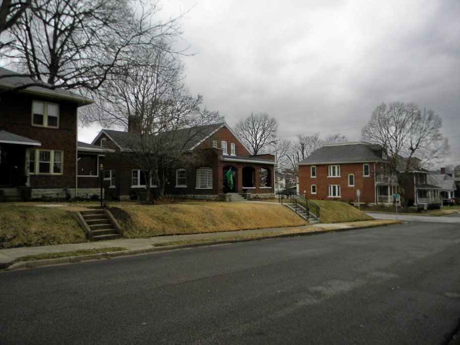 Locust Street Historic District